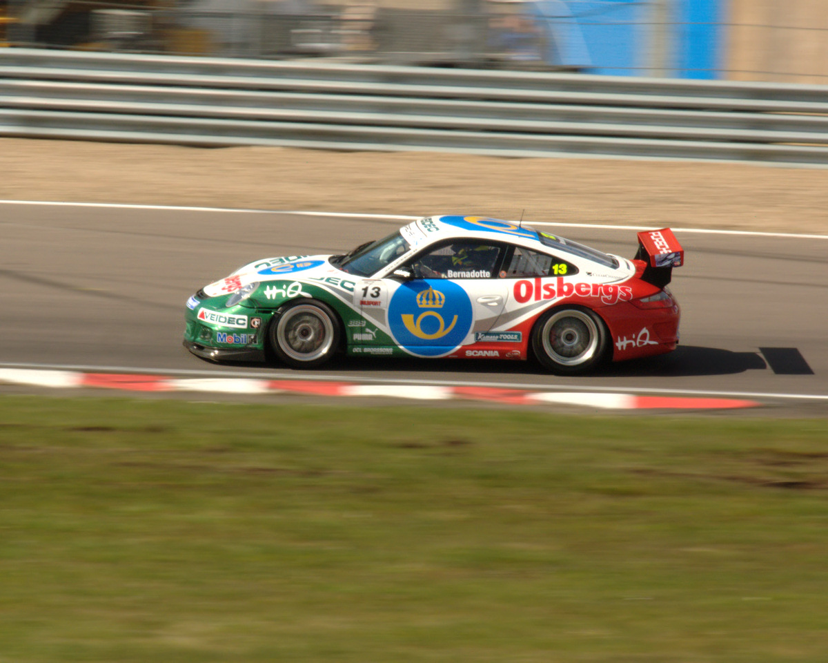 Swedish prince Carl Philip Bernadotte driving a Porsche 997 GT3 Cup at Carrera Cup Ring Knutstorp in Sweden.